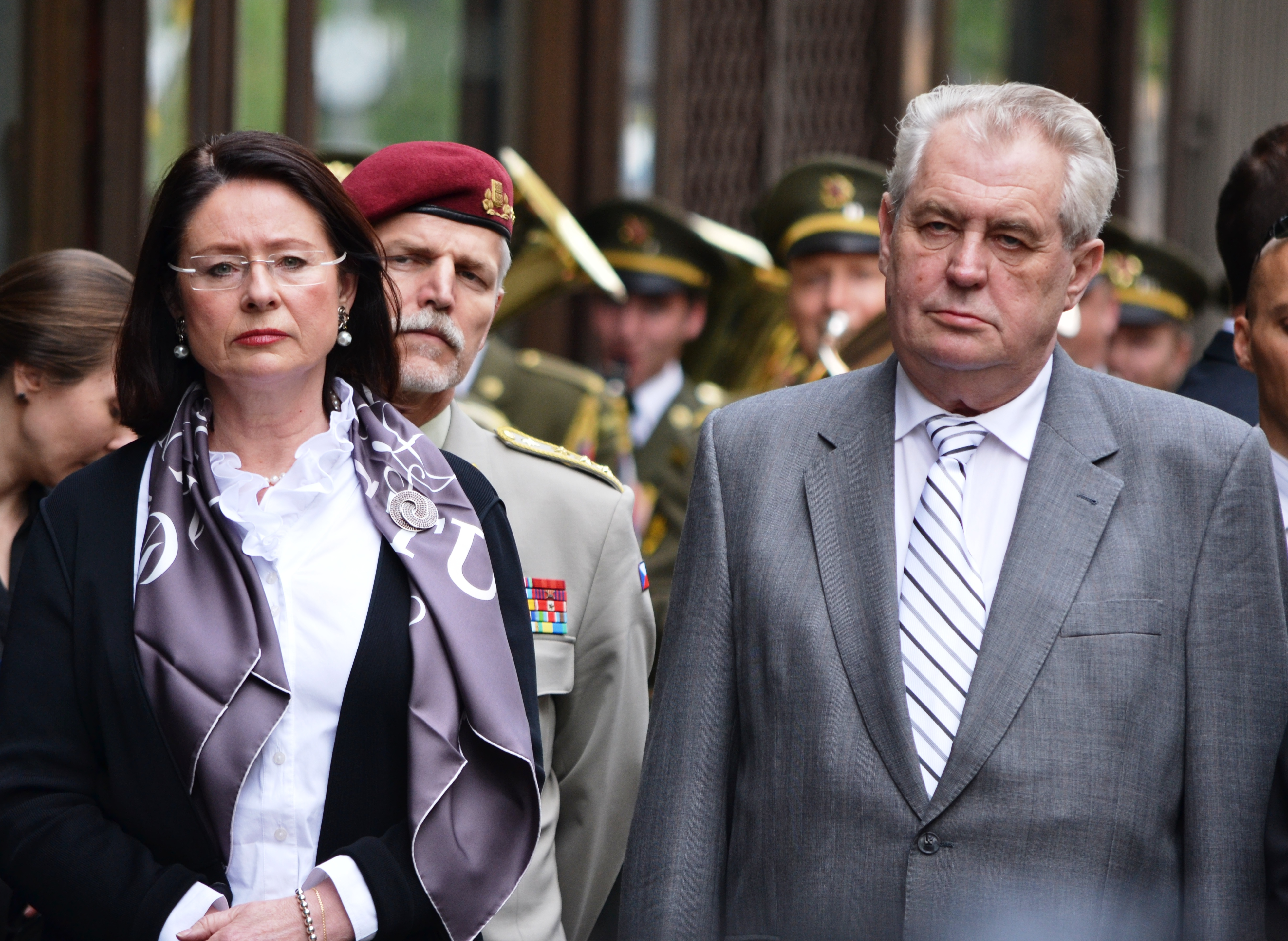 from left: Miroslava Němcová, Chairperson of the Czech Parliament and Miloš Zeman, President of the Czech Republic